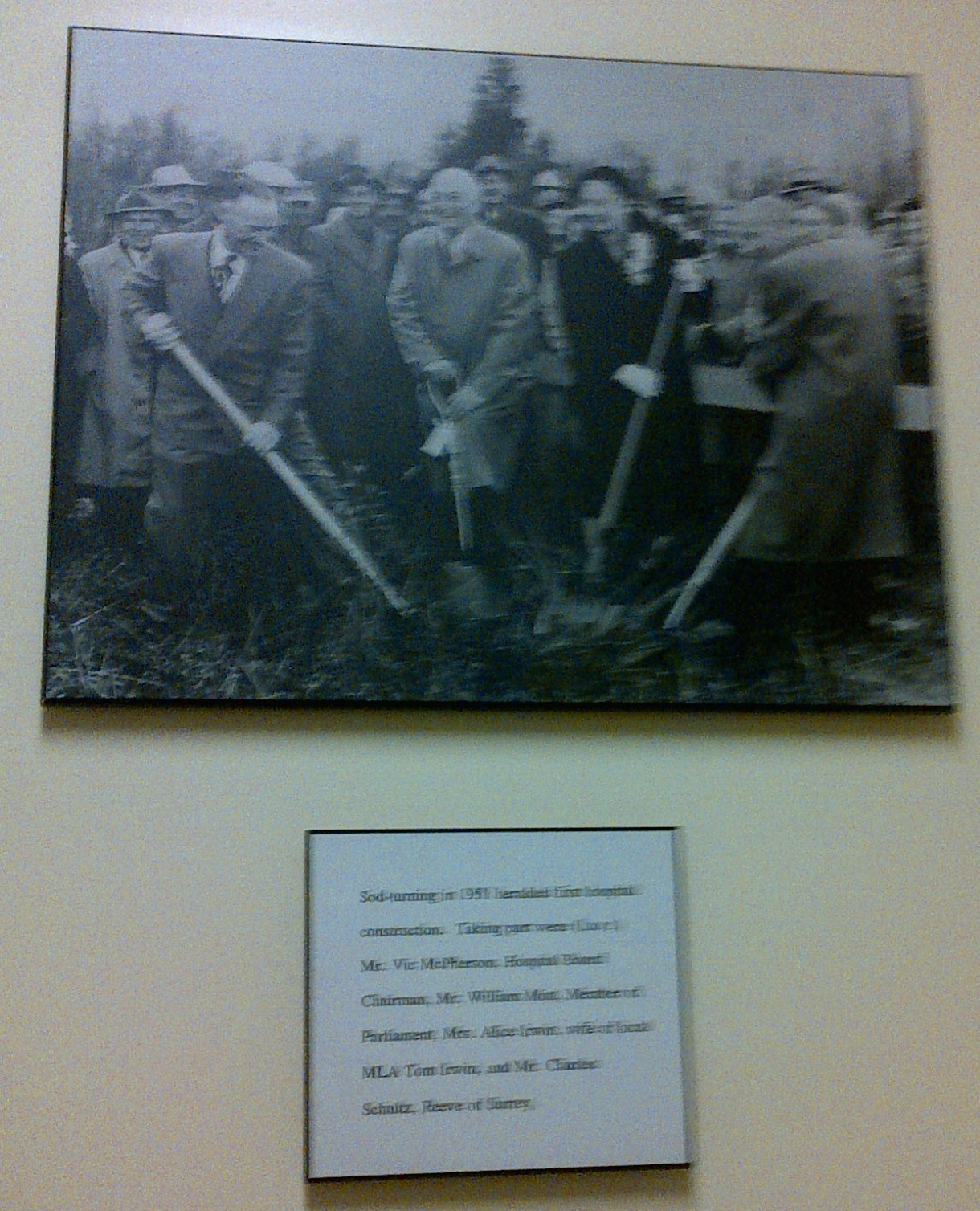 Photograph displayed in Peace Arch Hospital of 1951 sodturning